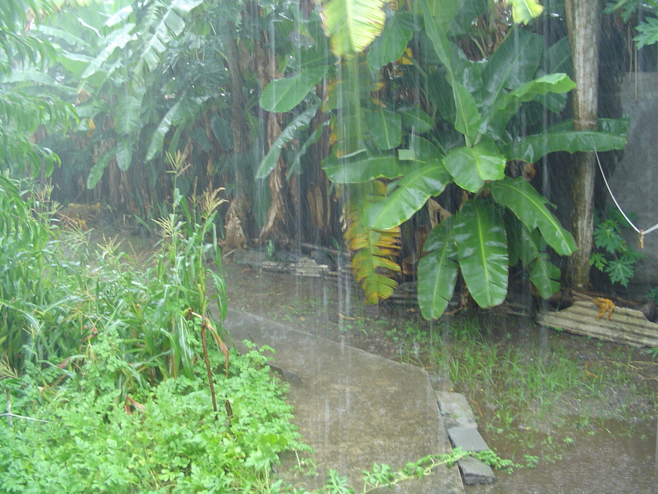 Rain season in Mayotte